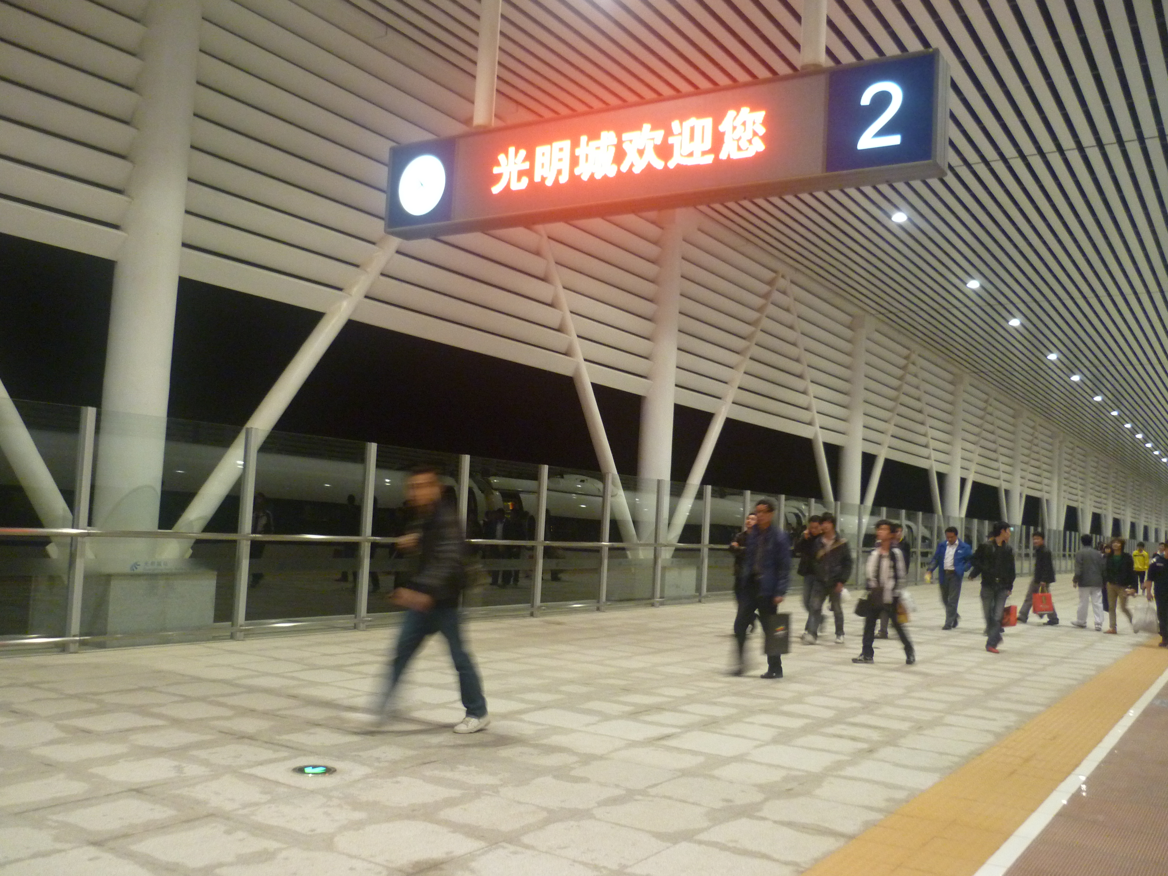 Platform 2 of Guangmingcheng Station.